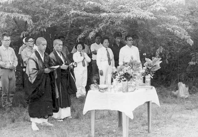 Members of Nippon Izokukai Seinebu(Youth Division Japanese War-Bereaved Families) with priests offer prayers in Marpi